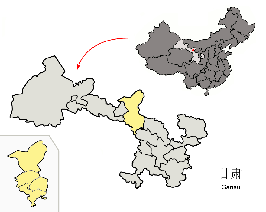 Location of Wuwei Prefecture (yellow) within Gansu province of China Map drawn in september 2007 using various sources, mainly : Gansu province administrative regions GIS data: 1:1M, County level, 1990 Gansu Counties map from